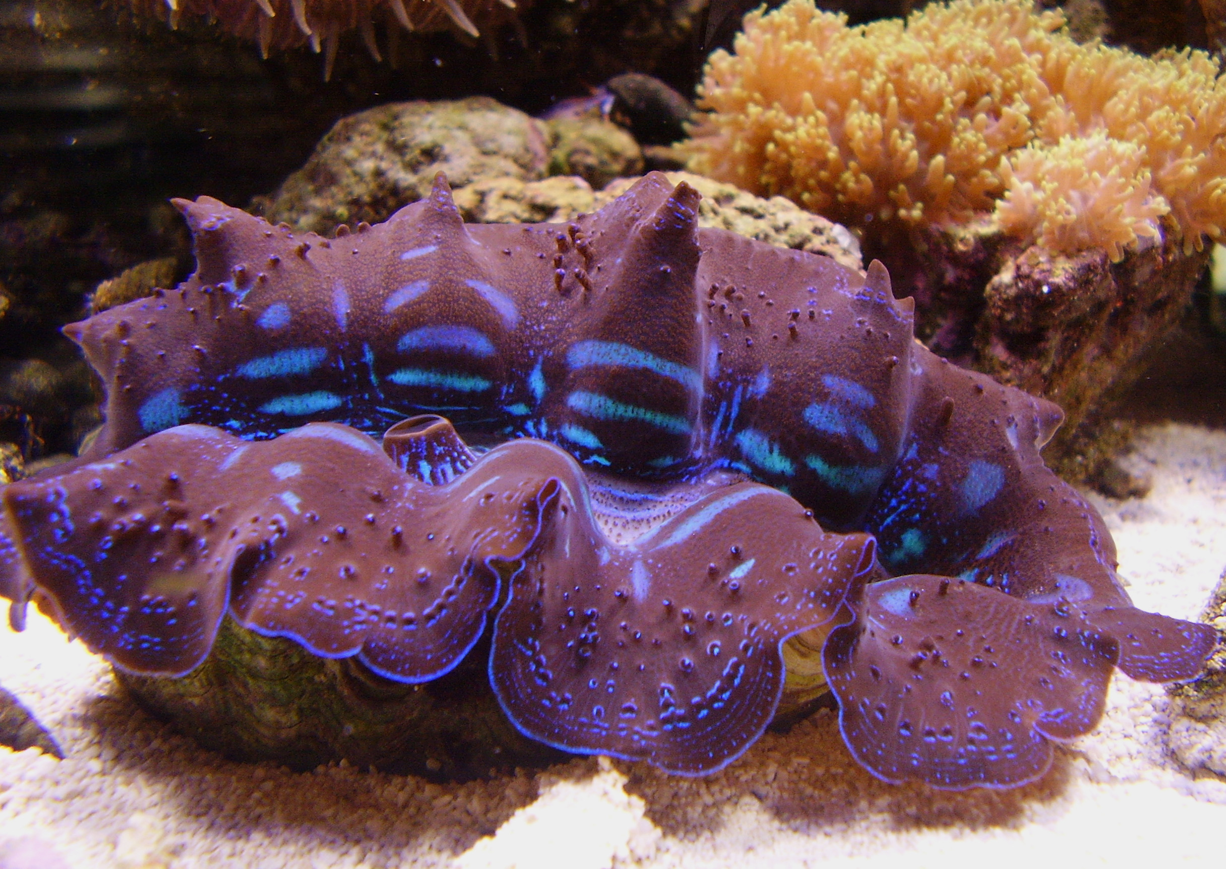 A blue maxima clam (Tridacna maxima) in aquarium, measuring 6.5 inches (165 mm) in length.